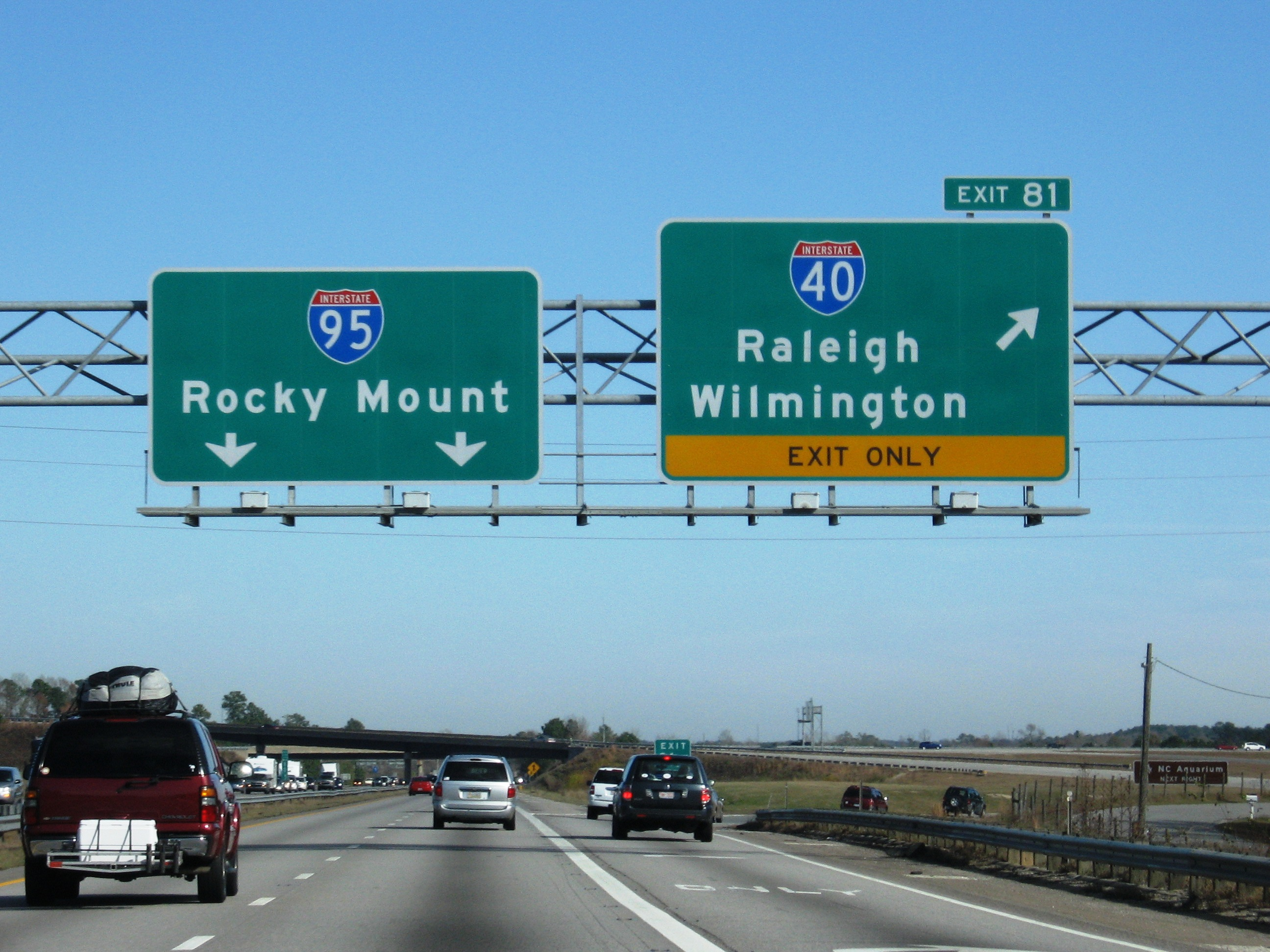 I-95 northbound at its intersection with I-40 in North Carolina.